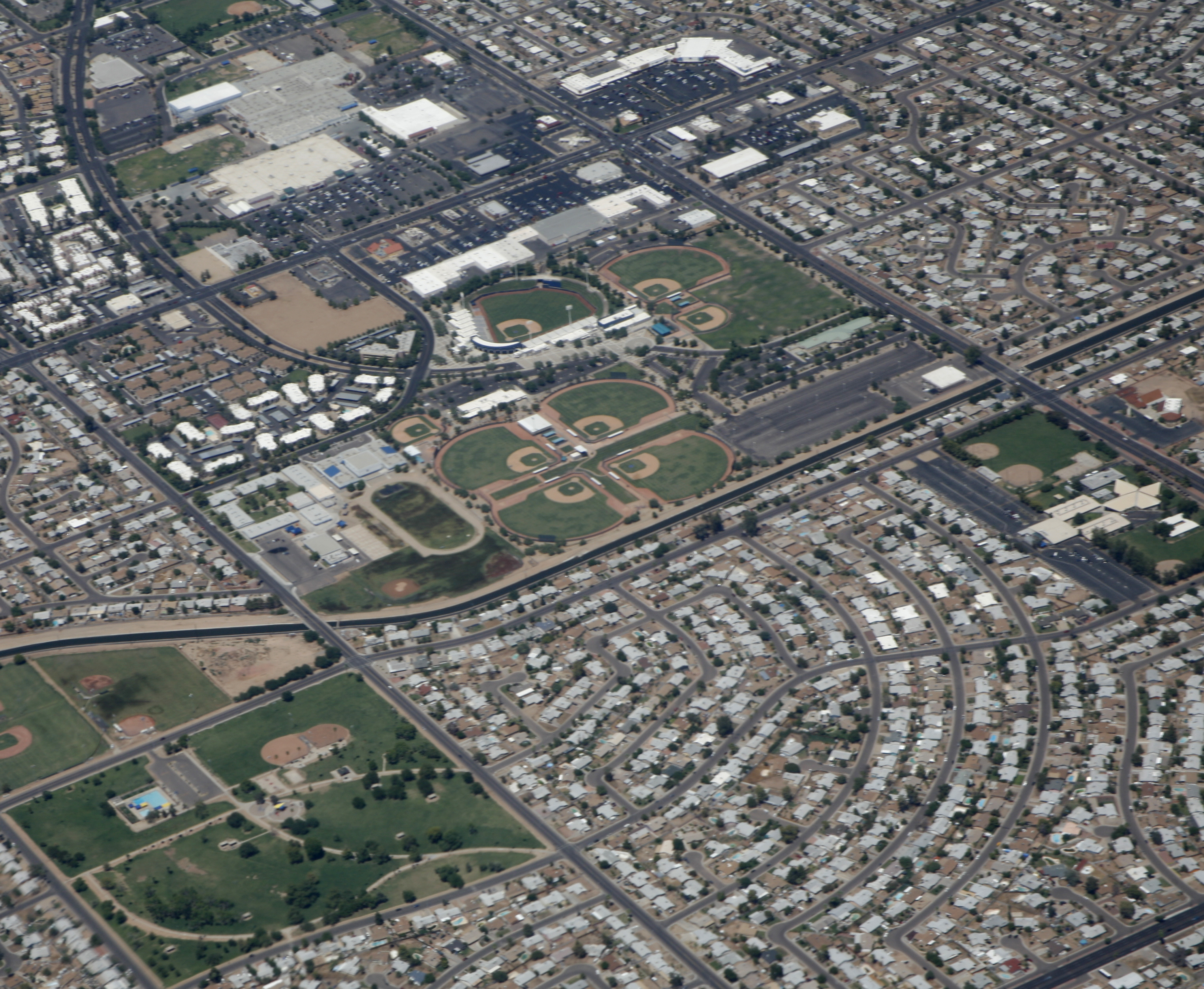 At the top, Maryvale Baseball Park, home of the minor league Brewers. Plus an additional six fields nearby. On this side of the Grand Canal is Marivue Park, a Phoenix city park. 51st Avenue runs on the far side from right to top. Marivue Park is at 55th and Osborn.